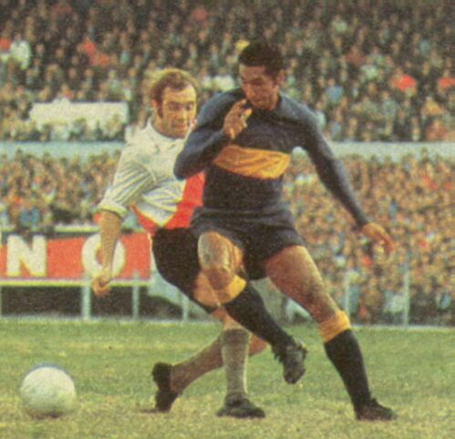 Peruvian footballer Julio Meléndez during his time as a Boca Juniors player (1968-1972). Before Daniel Onega forward of River Plate.